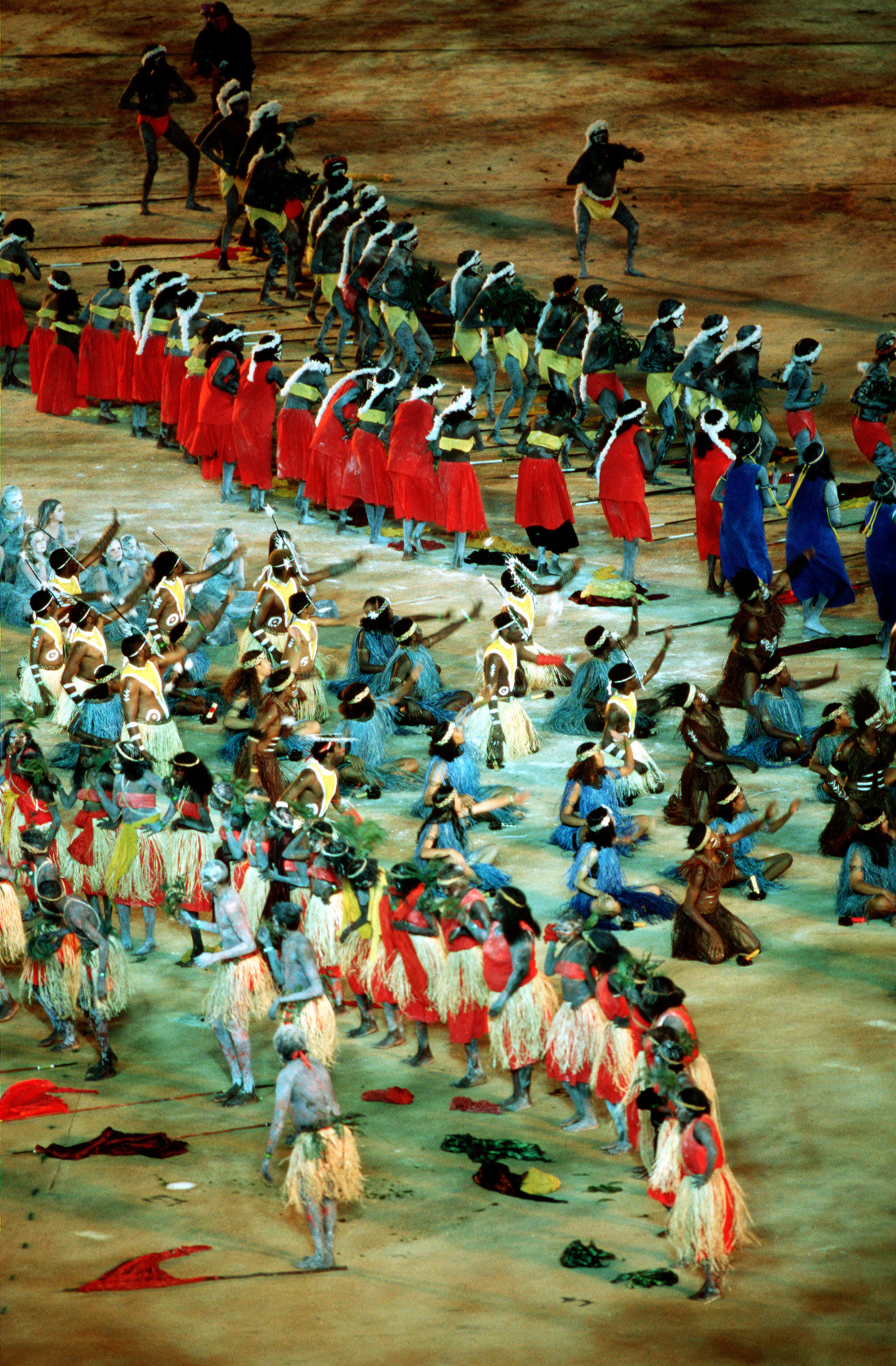 Aboriginal dancers make their way across the floor of the Olympic Stadium while performing before an audience of 110,000 during the opening ceremonies for the Sydney 2000 Olympic games.